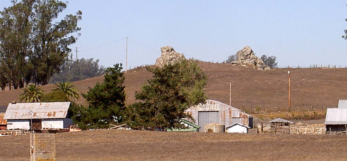 Two Rock, California with Dos Piedros in the background